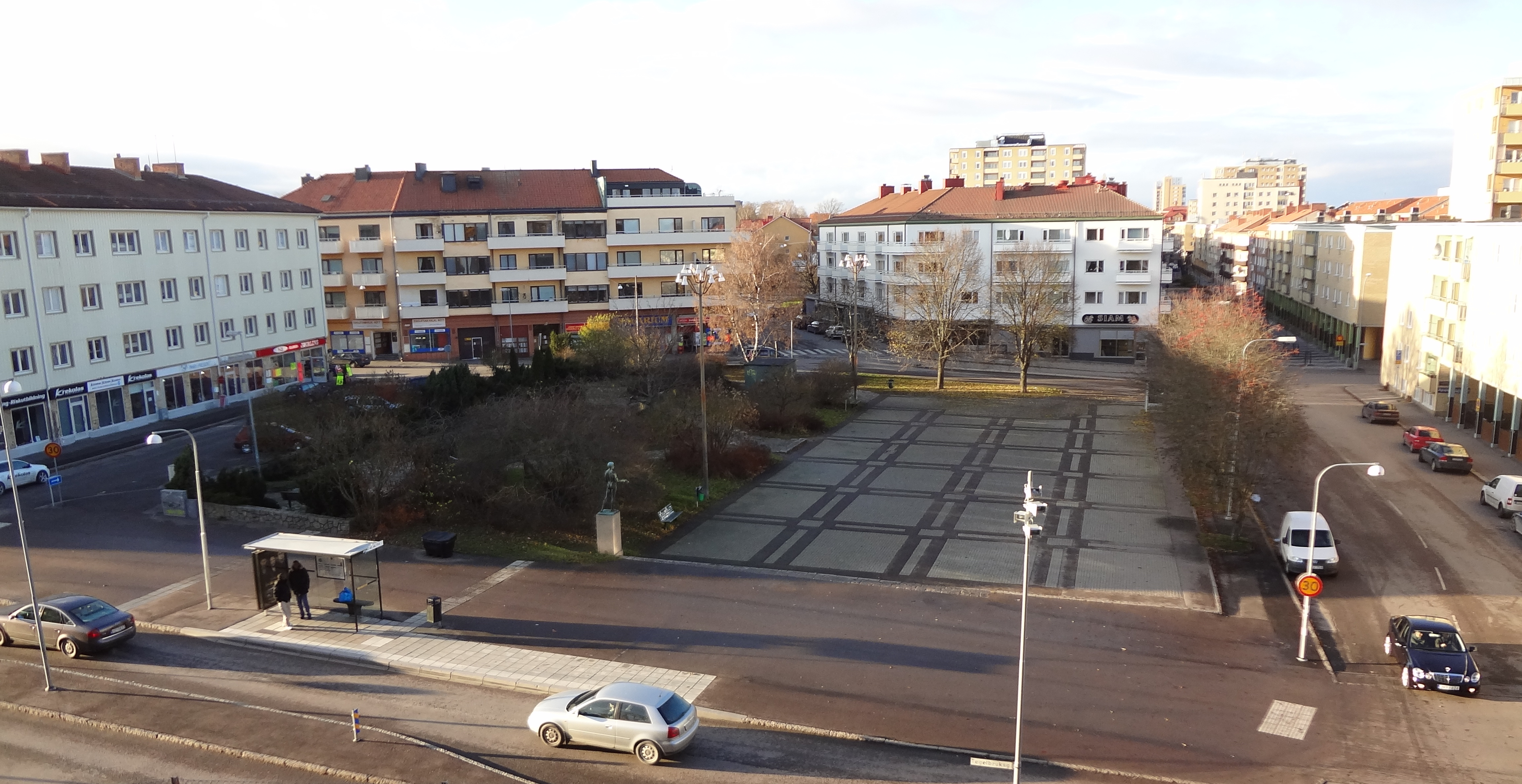 Järntorget (a public square) in Eskilstuna, Sweden. Photo taken November 2012.